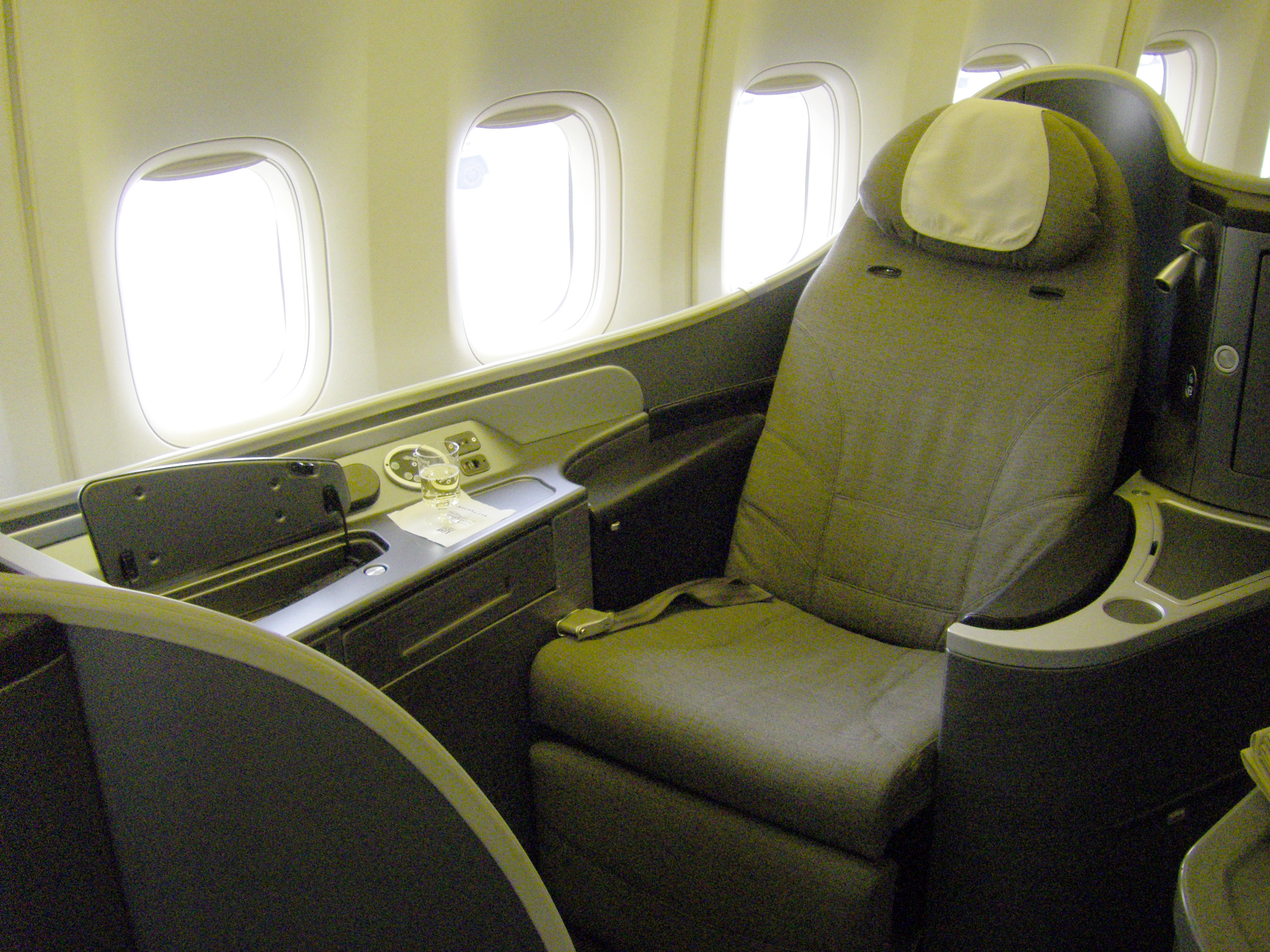 First class sleeper pod on United Airlines 747 between Tokyo and Chicago